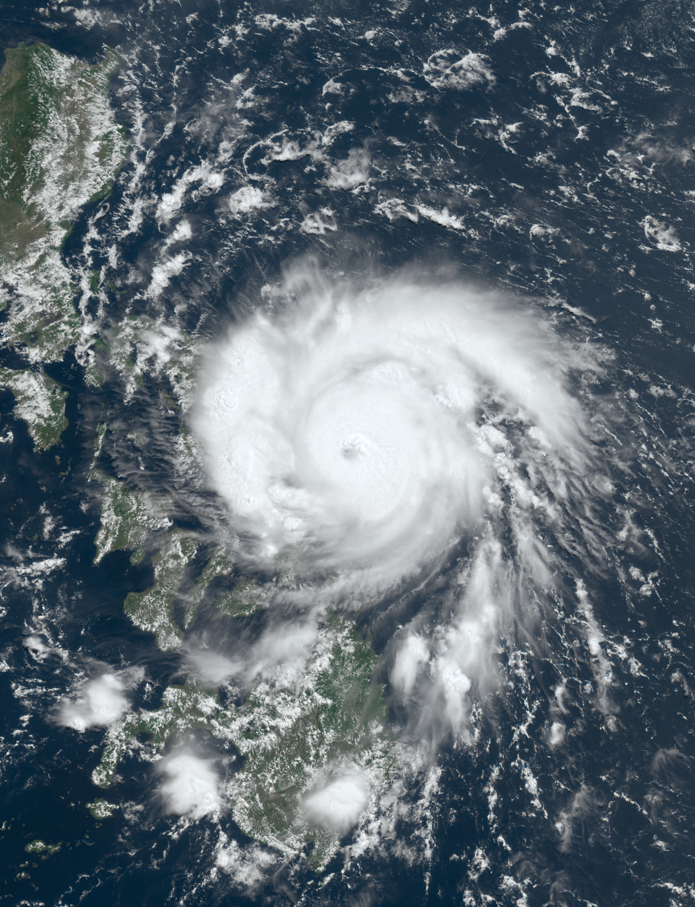 Typhoon Vongfong nearing the Philippines on May 14, 2020.